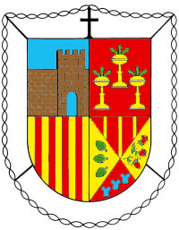 Copon's coat of Arms